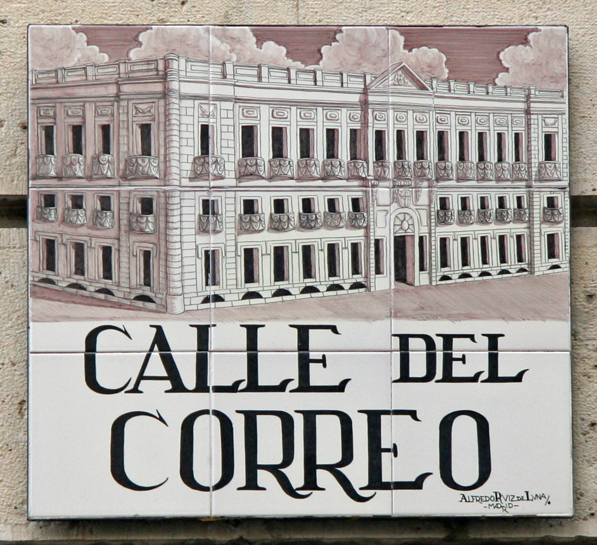 Sign of Calle del Correo (street, Centro district) in Madrid (Spain).